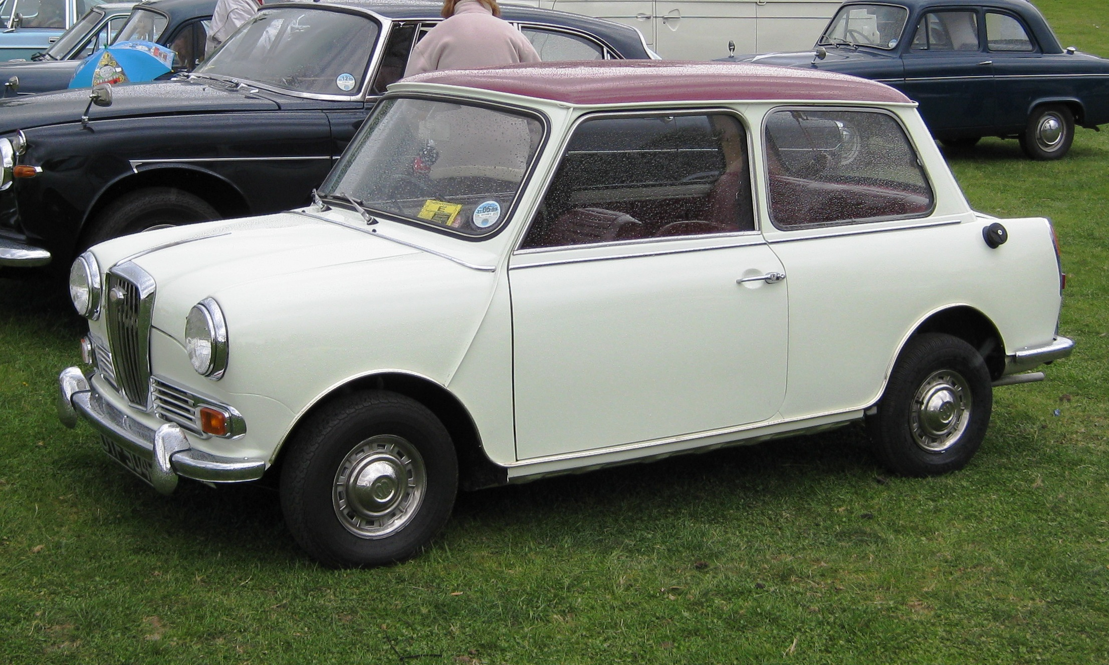 Wolseley Hornet near Biggleswade